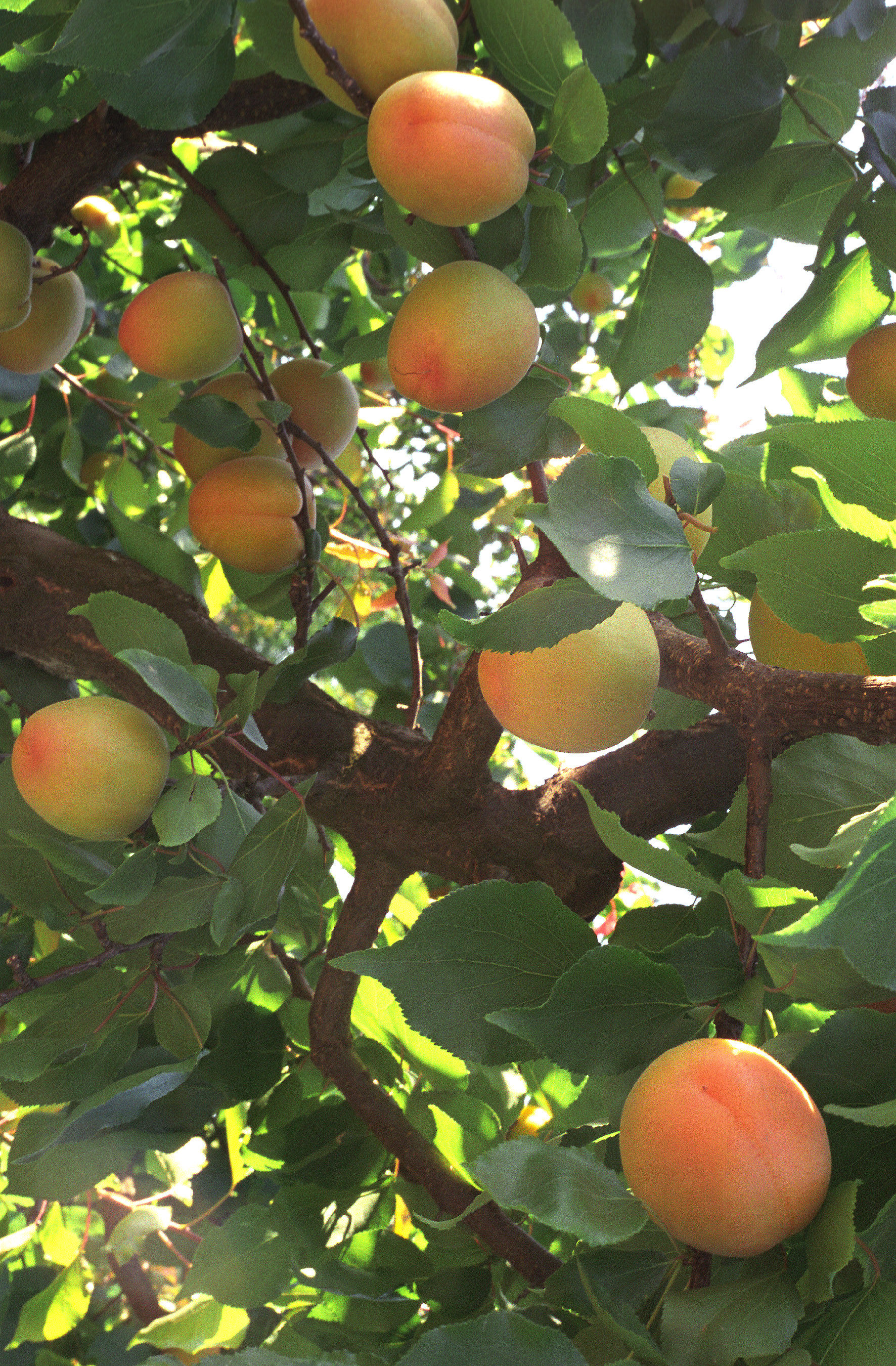 Apache apricot tree.